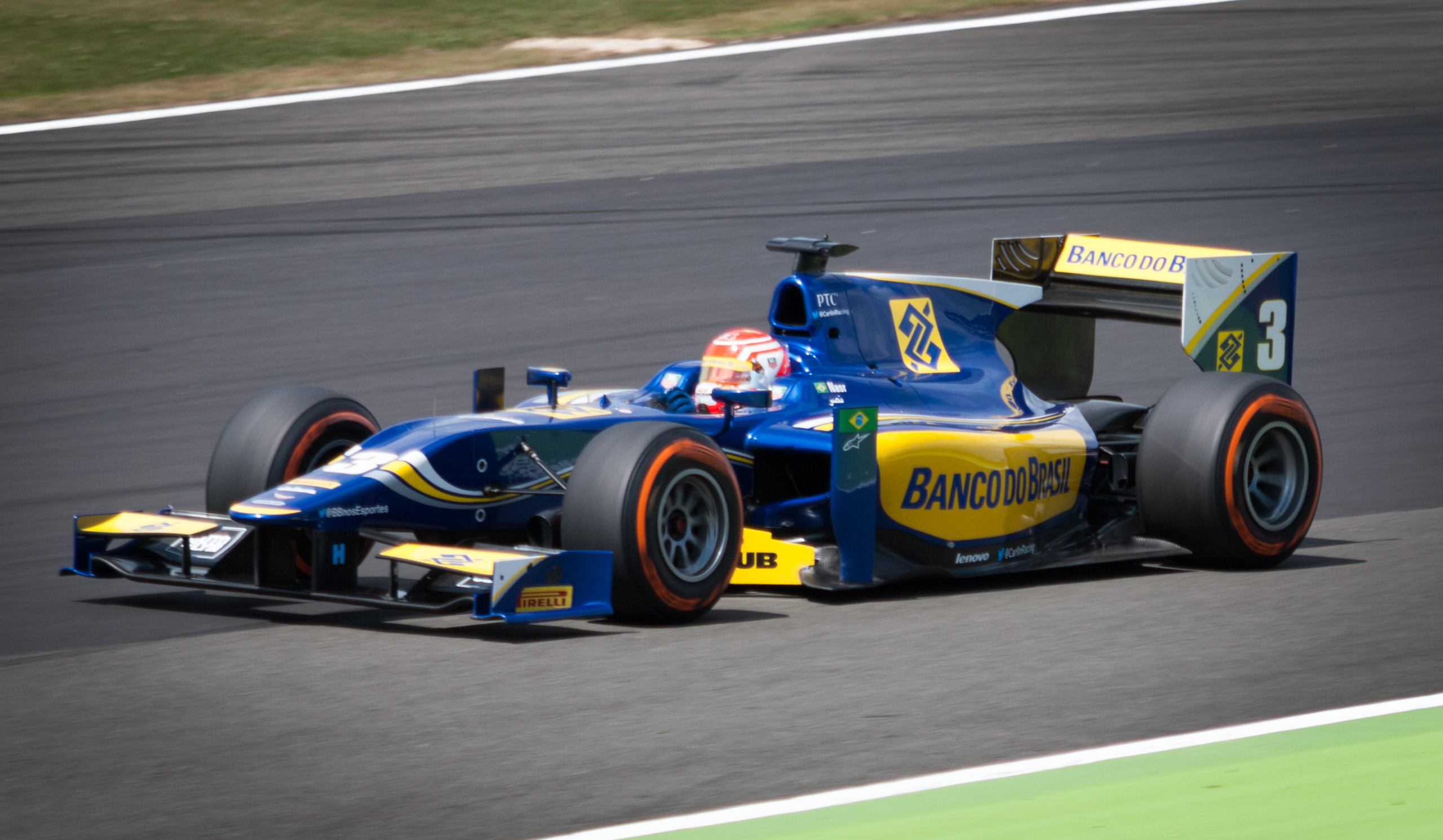 Felipe Nasr driving for Carlin Motorsport at Silverstone. Round 5 of the 2014 GP2 Series Championship.